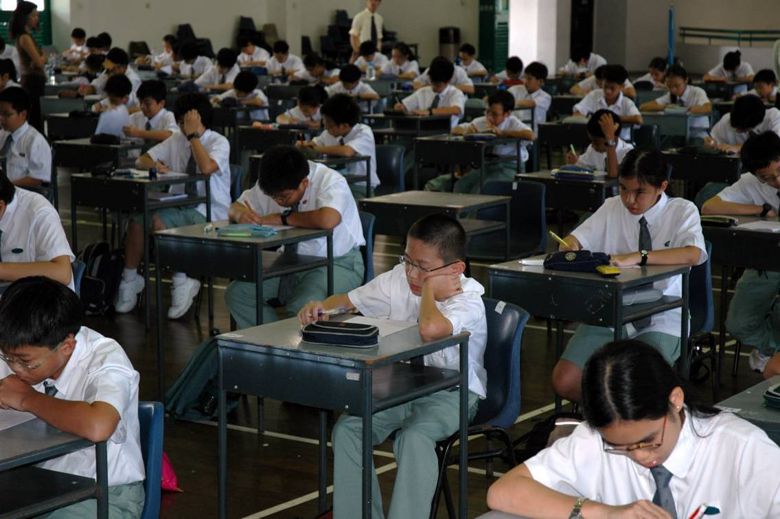 Examination